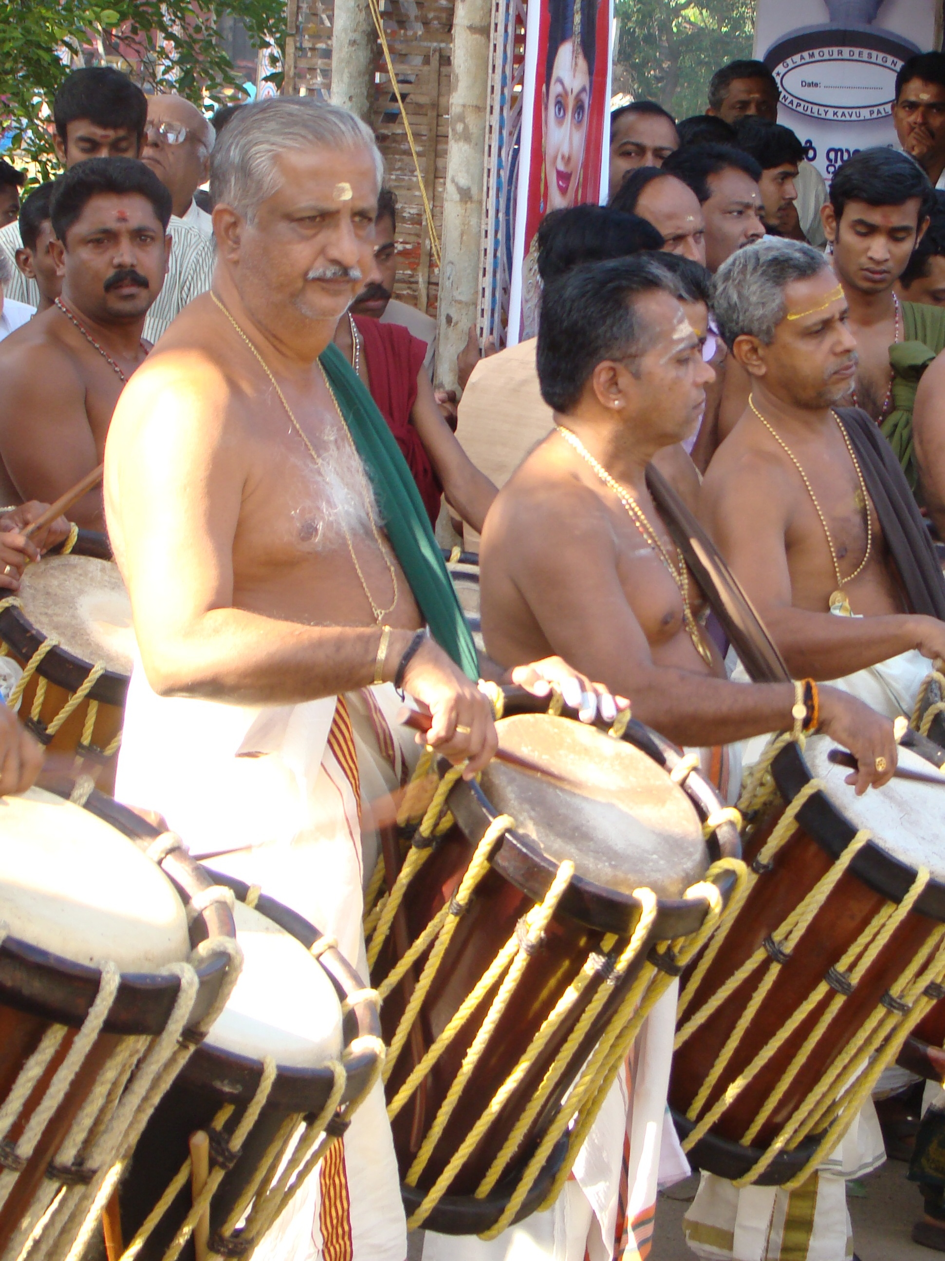 Peruvanam Kuttan Marar is a leading 'Chenda' (A type of Drum) Artist from Kerala, India